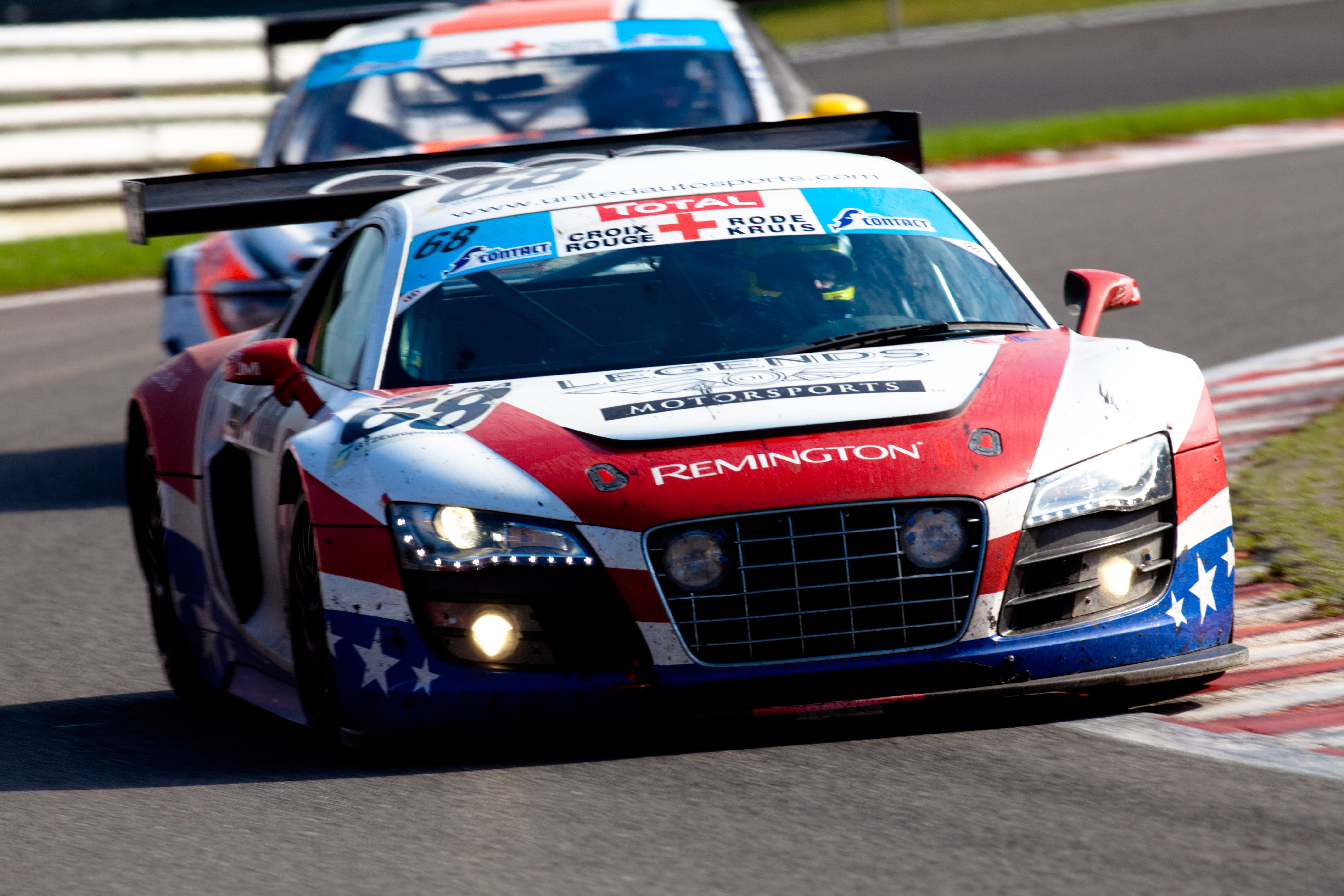 2010 Spa 24 Hours Spa-Francorchamps, Belgium. 31st July - 1st August 2010 Mark Blundell (GBR) AUDI R8 LMS (Car 68) Zak Brown (GBR) AUDI R8 LMS (Car 68) Richard Dean (GBR) AUDI R8 LMS (Car 68) Eddie Cheever (USA) AUDI R8 LMS (Car 68) World Copyright: Malcolm Griffiths/LAT Photographic Ref: Digital Image IMG_9304